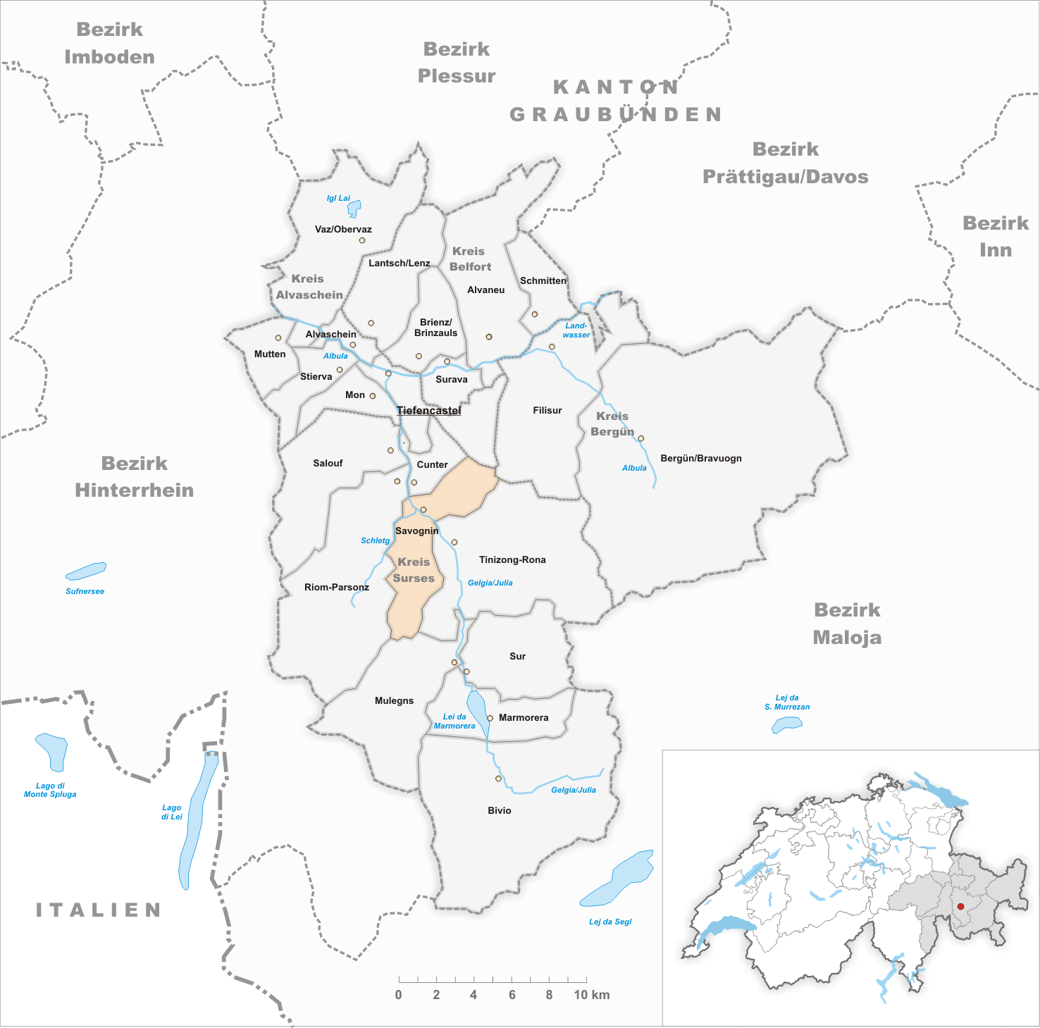 Municipality Savognin